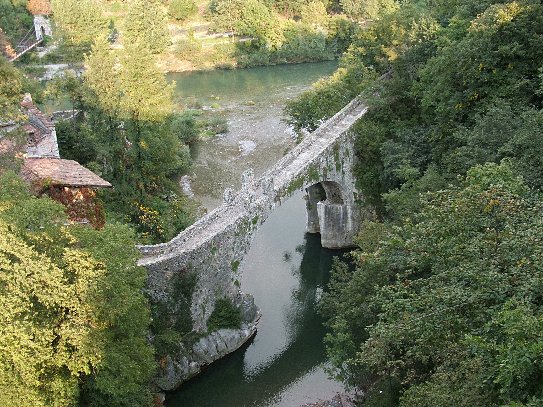 Ubiale Clanezzo, Bergamo, Italy - Stone bridge (X century)